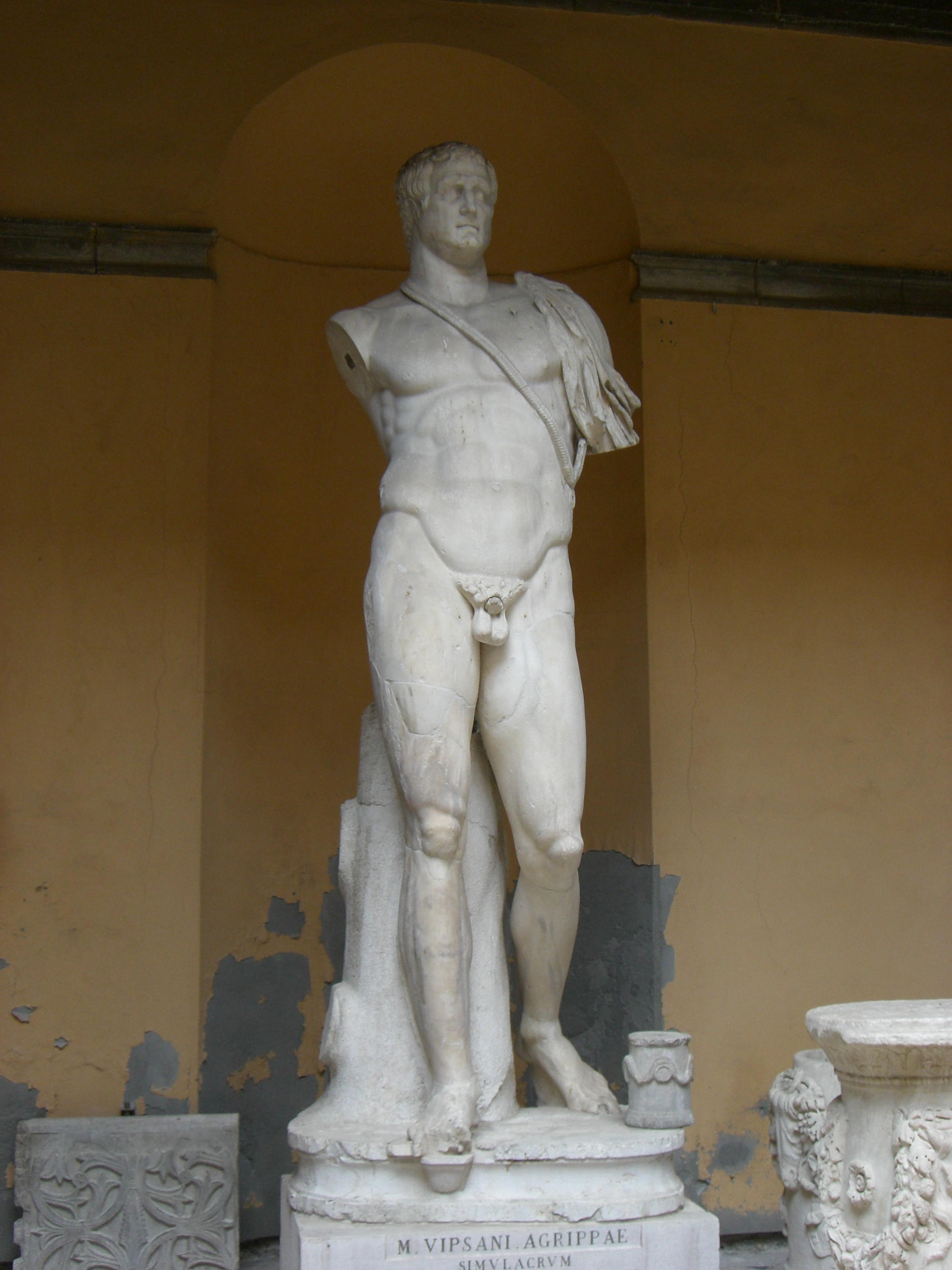 Marcus Vipsanius Agrippa